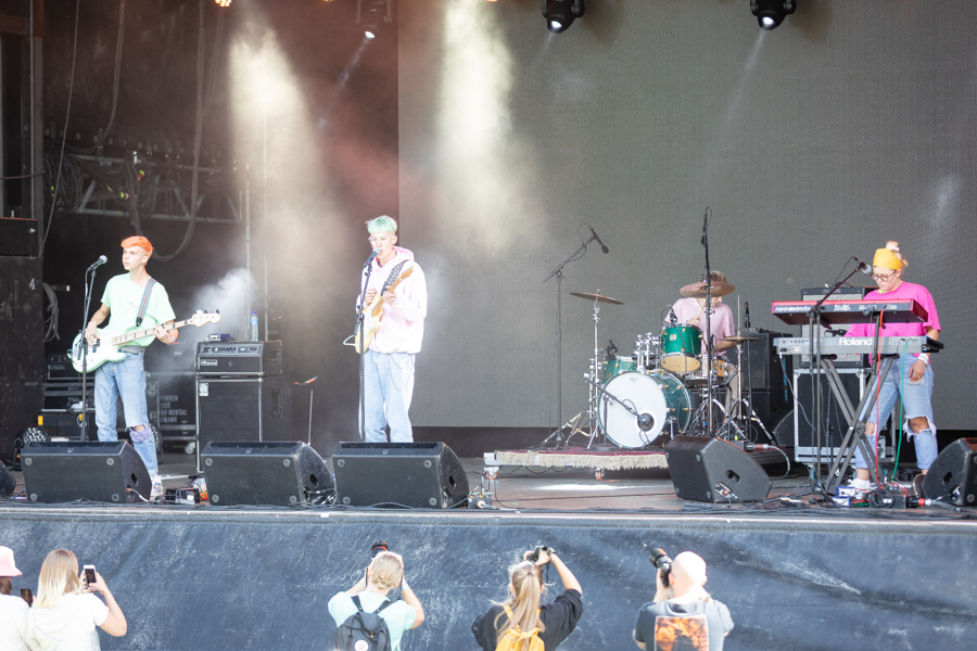 Gus Dapperton at the main stage in the Vigeland Park. The concert was part of Piknik i Parken and took place on 15. June 2018 in Oslo. Lineup:Gus Dapperton (vocal and guitar)Unidentified (drums)Unidentified (bass guitar)Unidentified (keyboard and percussion)